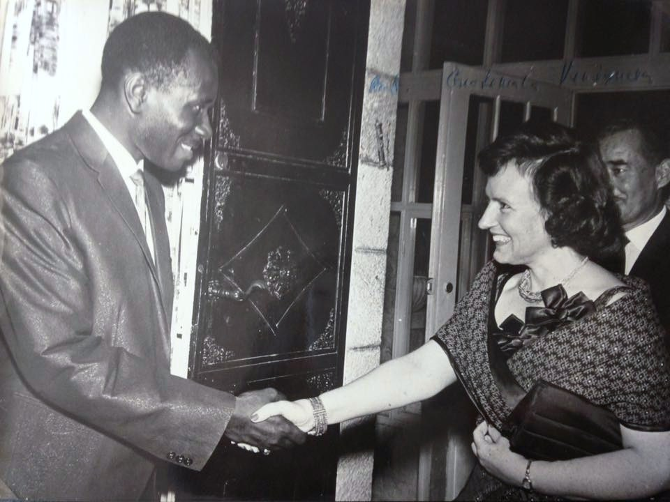 Francisca Fernandez-Hall, ambassador of Guatemala, received by Joseph Makosso, ambassador of Congo Brazzaville, celebrating at his residence the congolese national day, 15 august 1964, Jerusalem